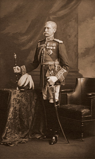 Portrait of Sir Charles Brownlow